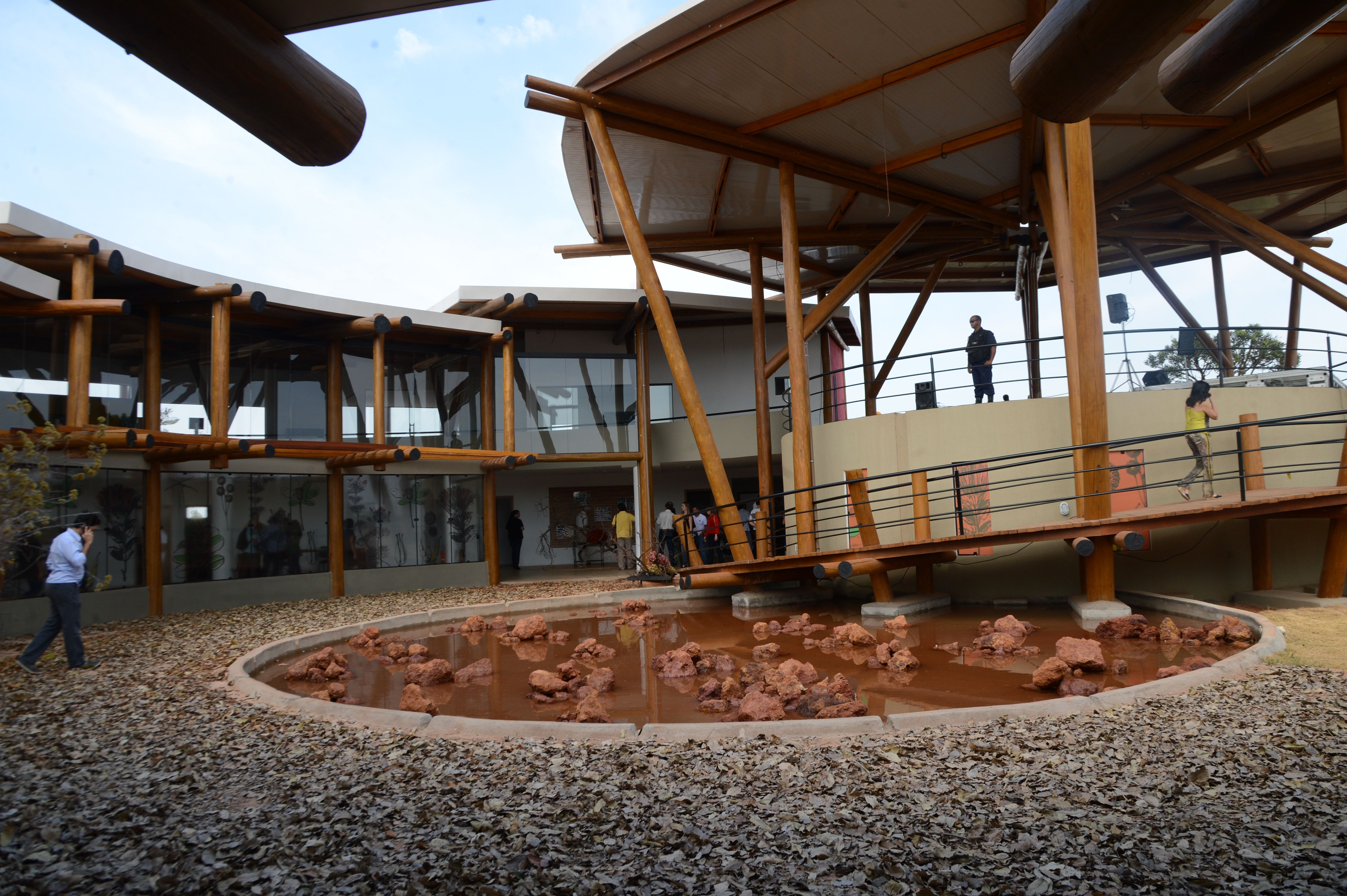 Photo by Elza Fiúza/Agência Brasil CCBY3.0